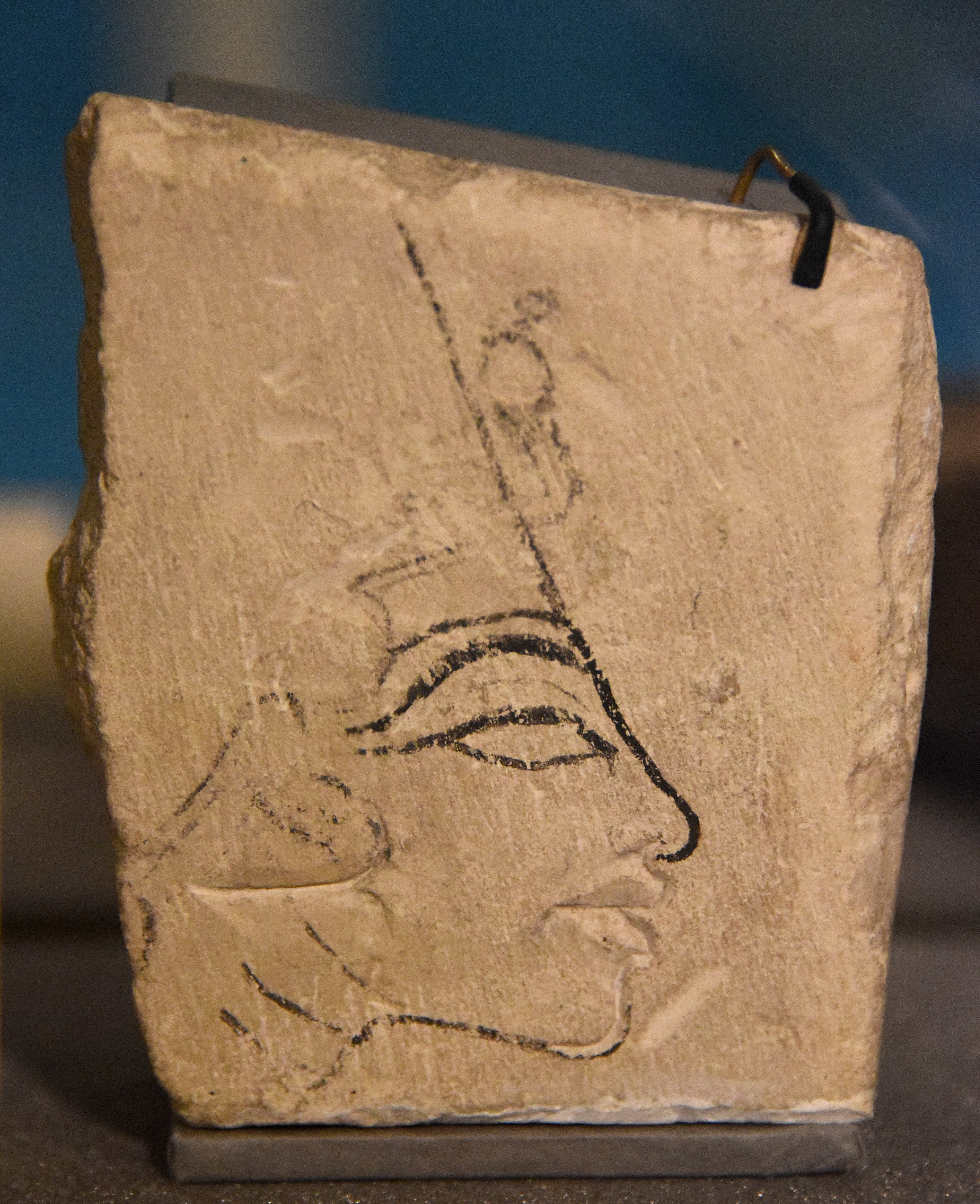 Limestone trial piece showing head of Nefertiti. She wears a tall crown and a rearing cobra on the forehead. Mainly in ink, but the lips were cut out. Reign of Akhenaten. From Amarna, Egypt. The Petrie Museum of Egyptian Archaeology, London